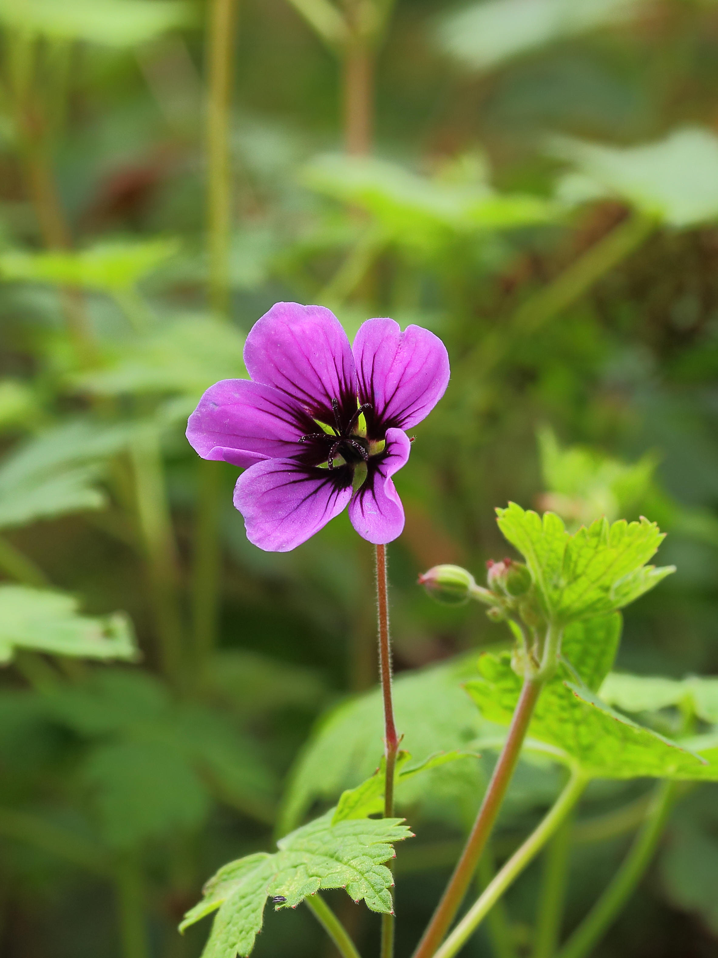 Geranium procurrens. Long Blooming somewhat invasive geranium.